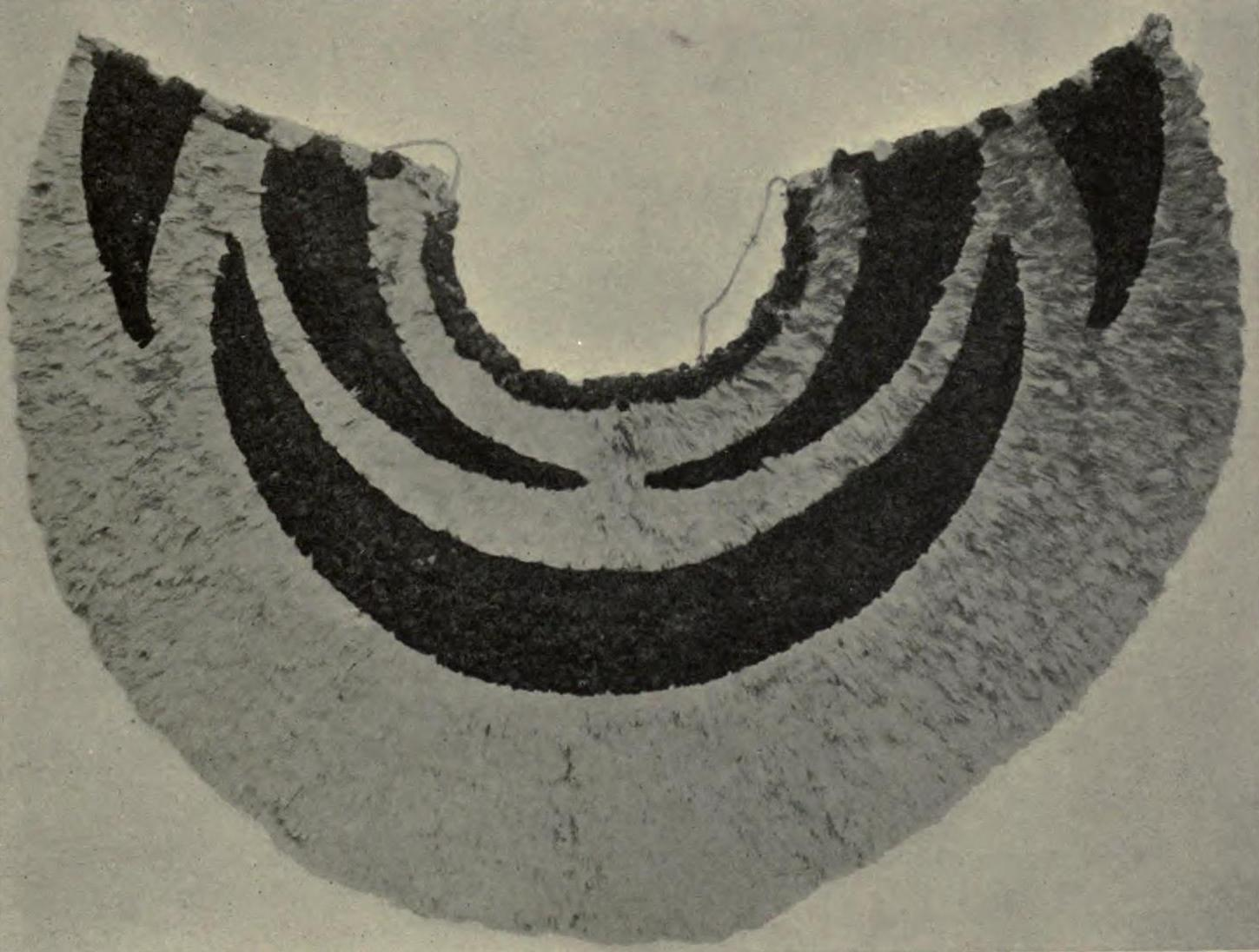 Kapiolani Nui Cape, Memoirs Bishop Museum, Vol. VII, Fig. 46. A beautiful example of work in yellow, red and black. It measures in extreme width 36 inches; depth at back 15.5 inches, and in front 11.5 inches. Of the central crescent the lower half is black, the upper red iiwi; the half crescents cut at the front are divided in the same way, black on the outside, red within. The neck-band is red and the front borders alternate yellow and red. The effect of the closed front is shown in a later. Fig. 51.